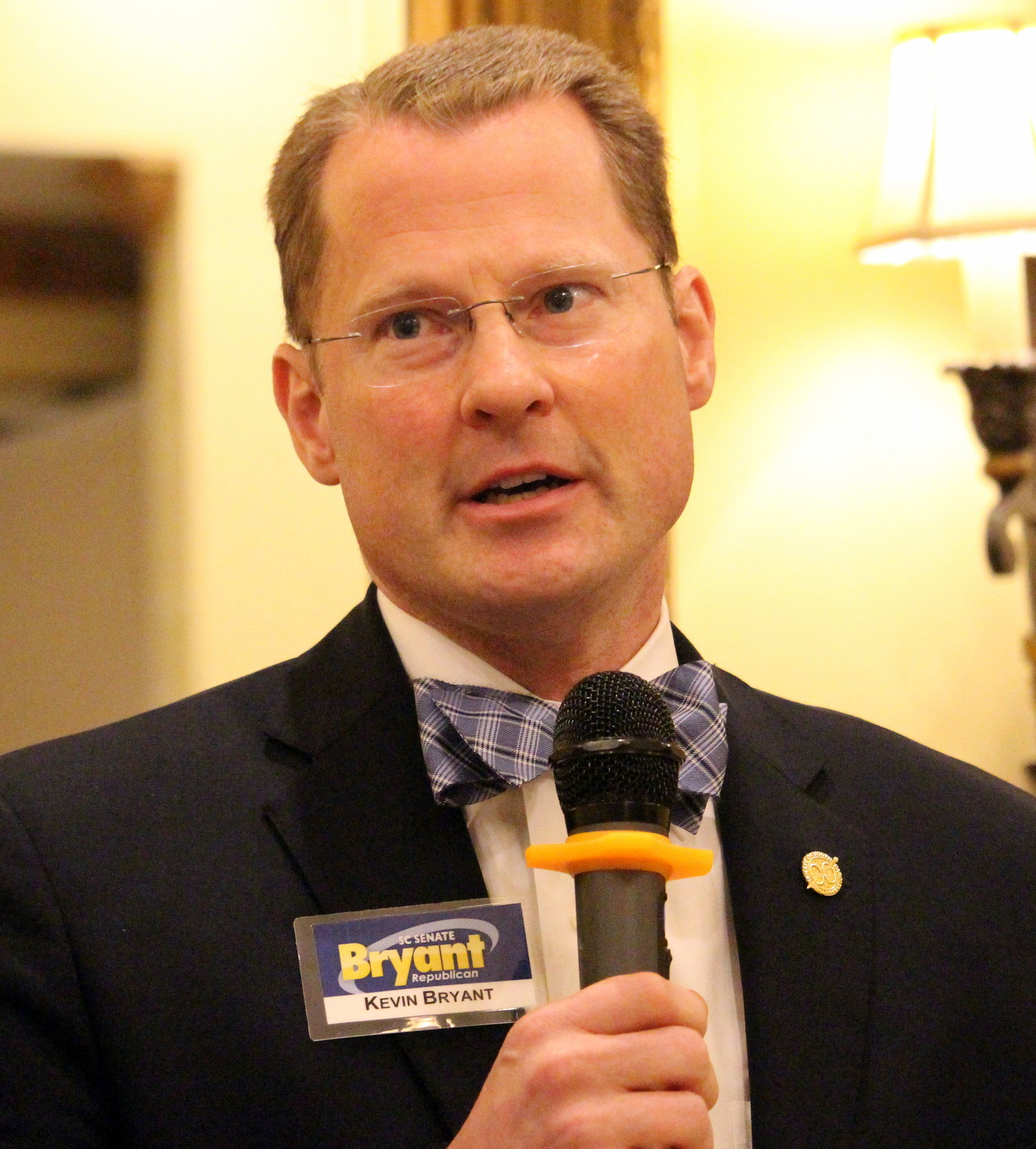 Kevin L. Bryan photographed at Senate Forum by Nichole MacGregor.